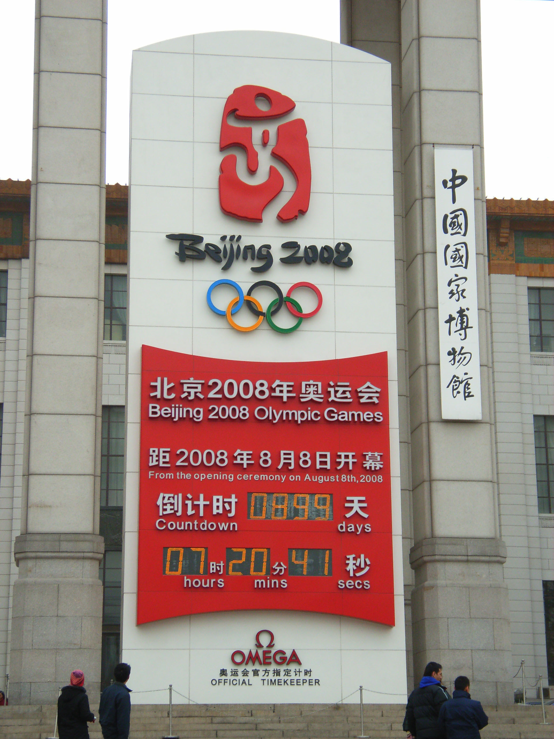 The Gate of National Museum of China Photo by 吉恩 See also:Image:P1090185.JPG